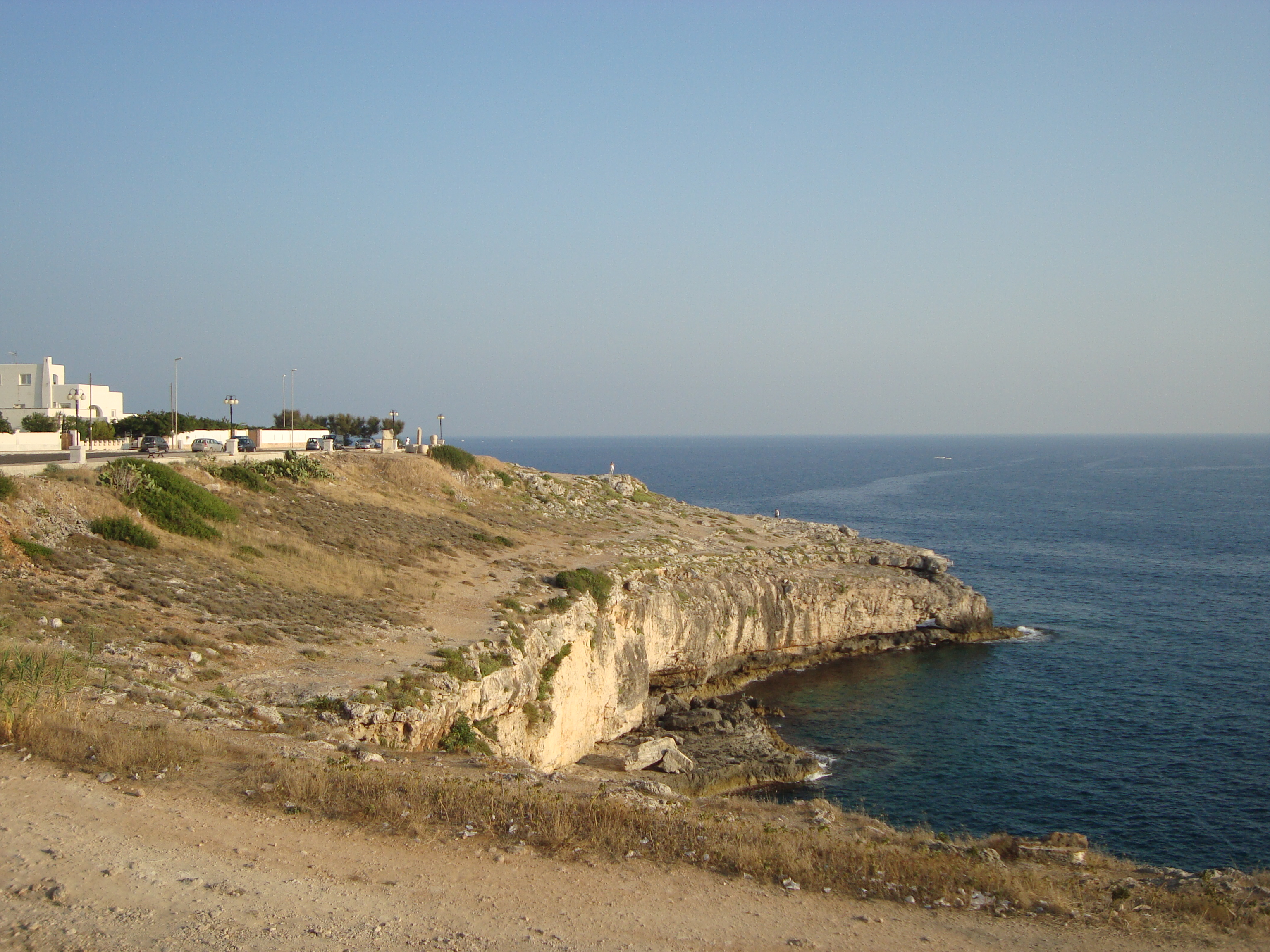 The Punta Ristola in Puglia near Santa Maria di Leuca marking the extreme south point of the heel.